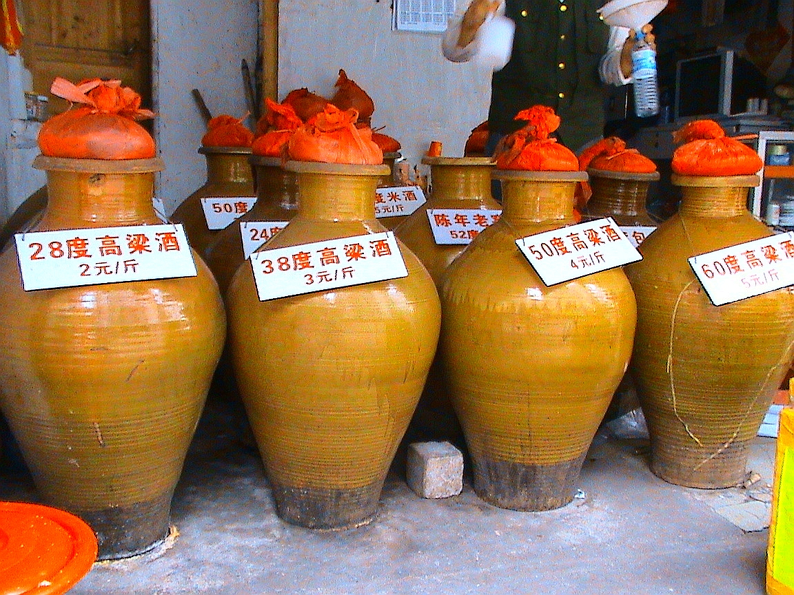 Bai jiu, or Chinese white hard alcohol that was made locally in Haikou, Hainan, China, and sold in a dedicated alcohol shop. On plates hanging on ceramic jars there is at upper left, the alcohol percentage (from 28度=28% to 60度=60%), at upperright : 高粱酒 (sorgho alocohol) and at bottom, the price (in yuan by pound (500 grammes). this is 2009 price.